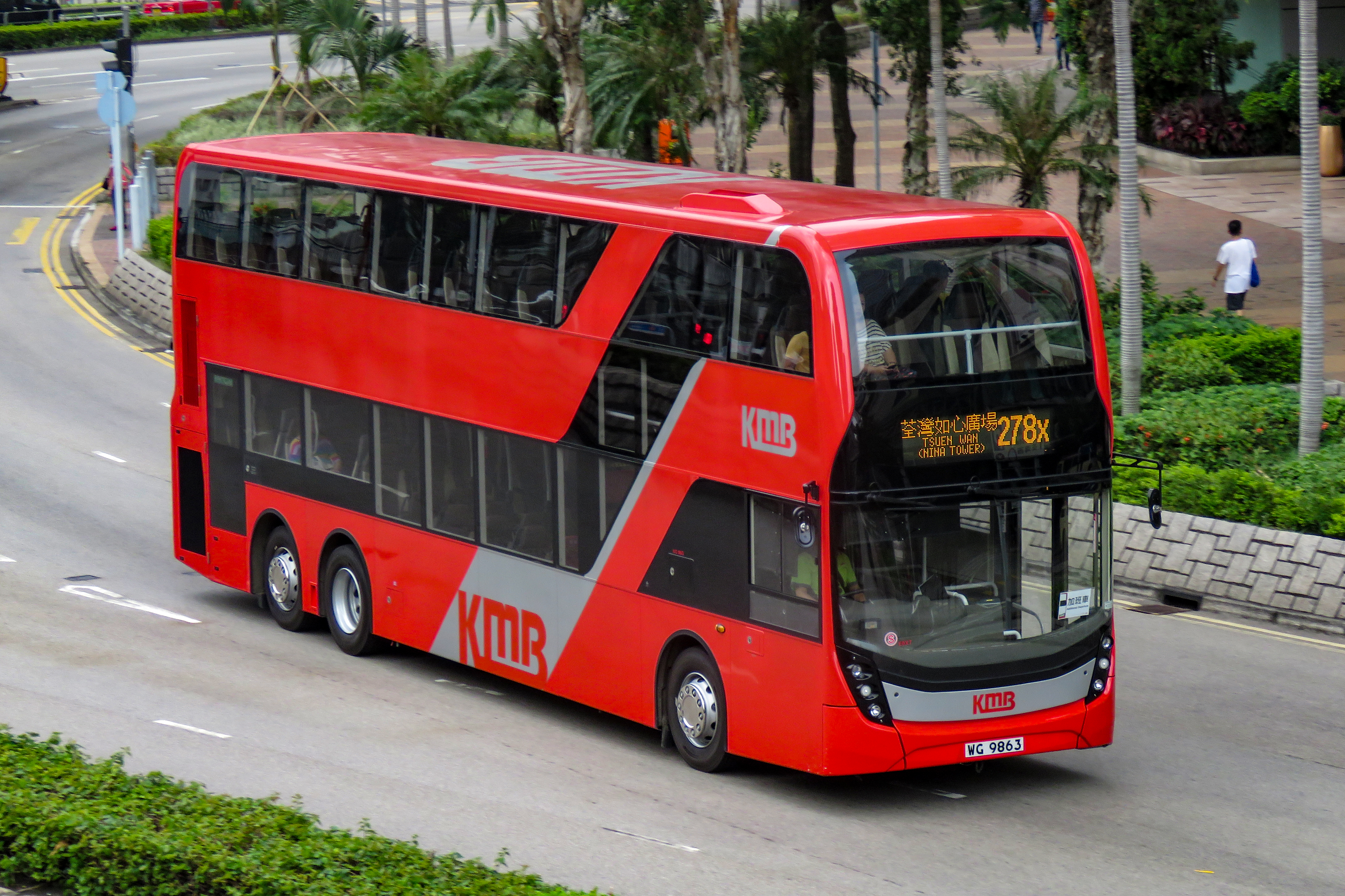 The first seven E6X (Enviro 500 MMC 12.8m Euro 6) are all based in Sha Tin Depot. Finally 278X experienced a day of being a star!